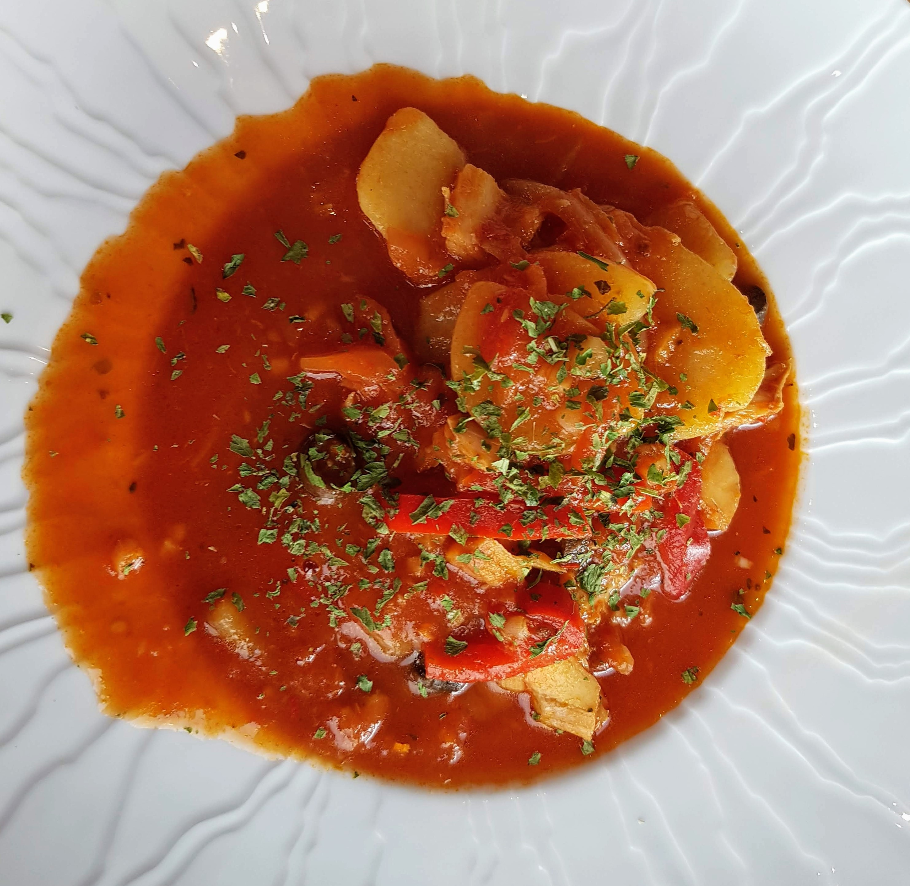 Cod fish bacalao served at a restaurant in Tromso, Norway